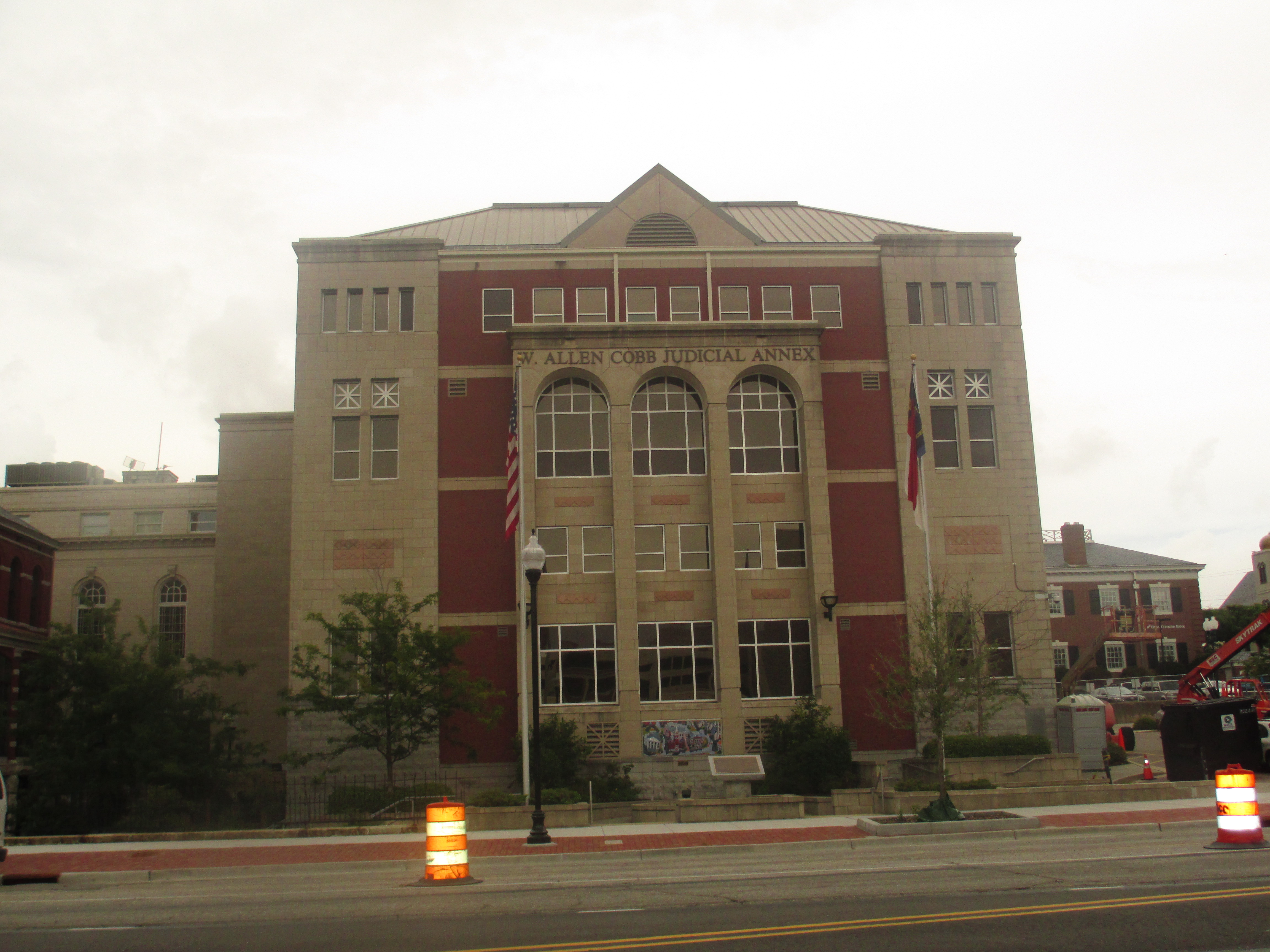 I took photo of Cobb Judicial Annex in Wilmington, NC, with Canon camera.